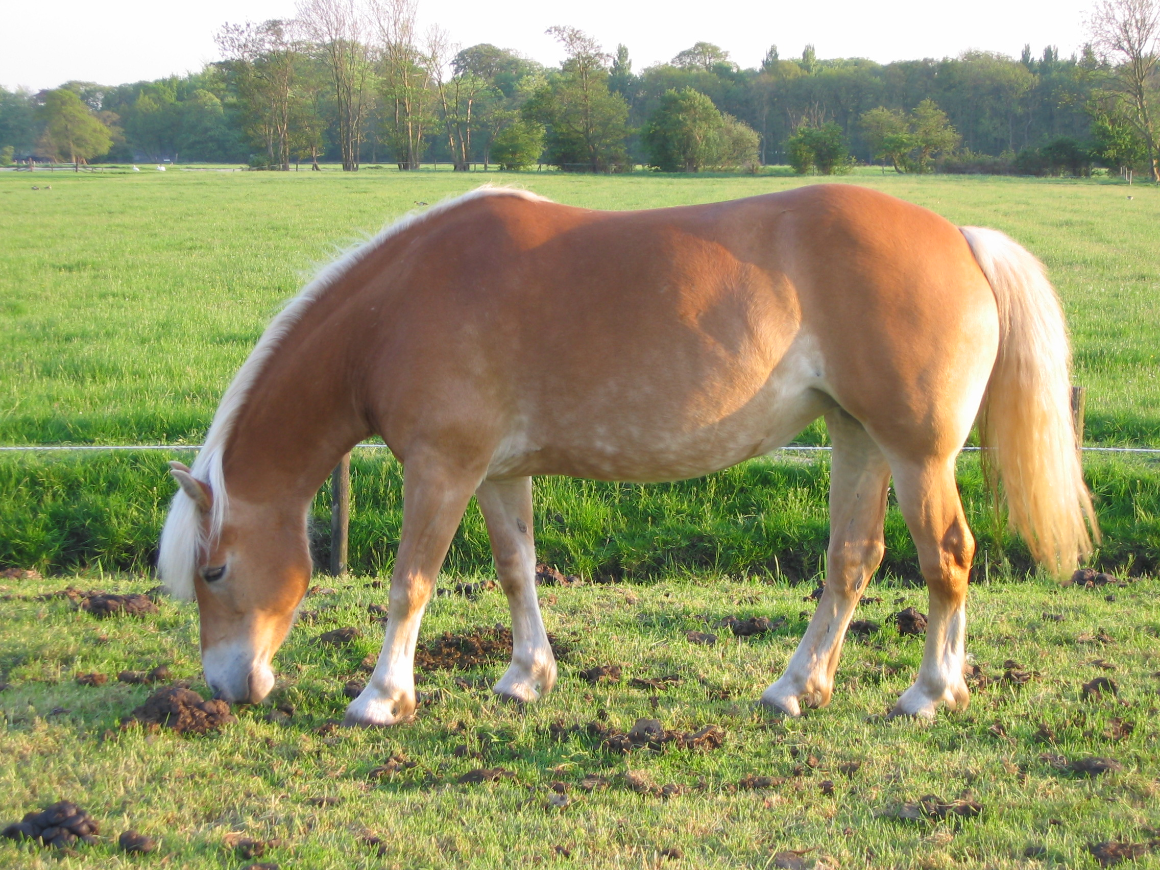 A Haflinger horse on pasture in the Netherlands in May 2006.